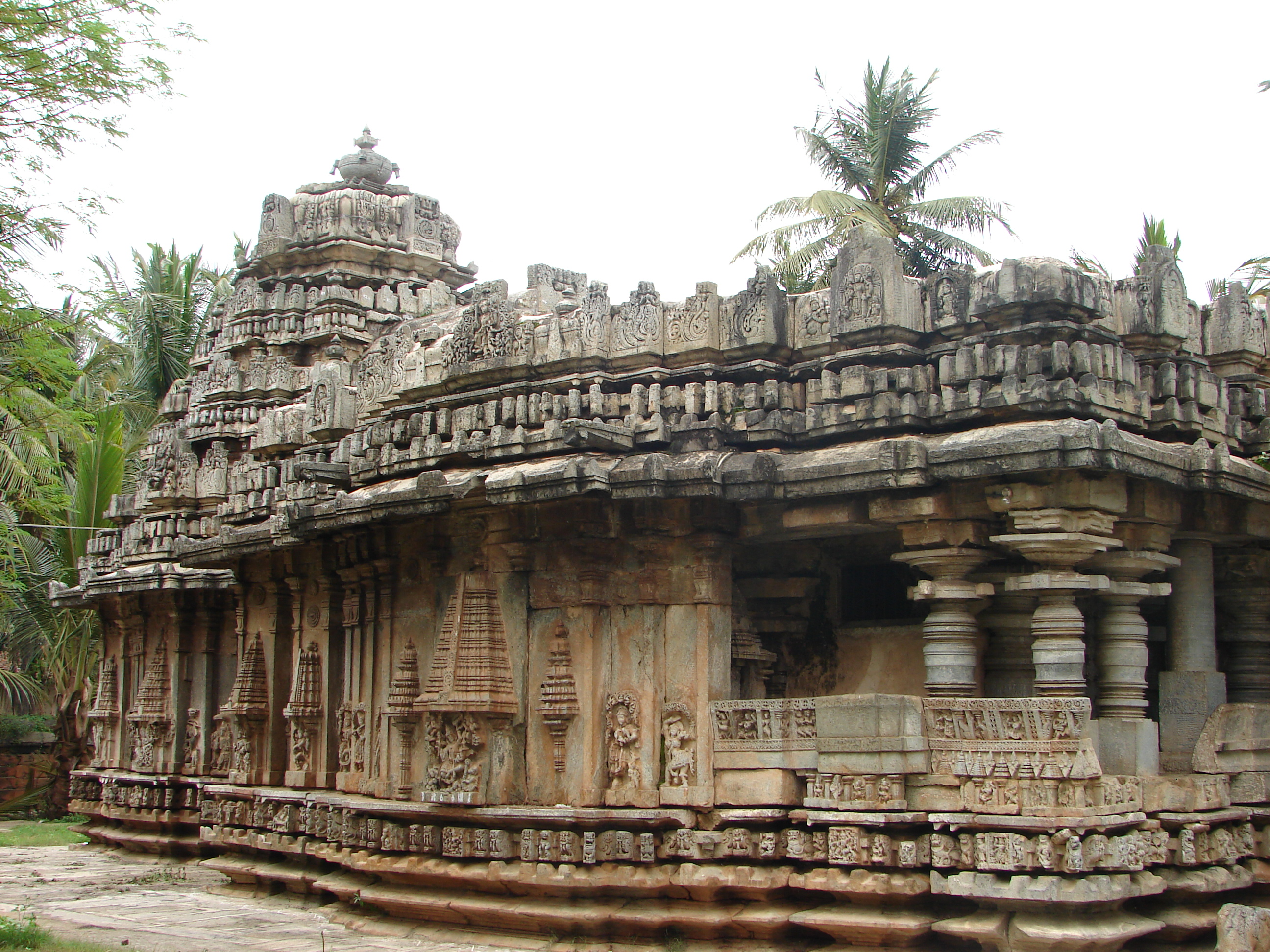 This photograph was taken by me at the Brahmeshvara temple (also spelt Brahmeshwara or Brahmeswara) in Kikkeri, Mandya district, Karnataka state, India. The temple was built in 1171 A.D. during the rule of Hoysala Empire King Narasimha I.